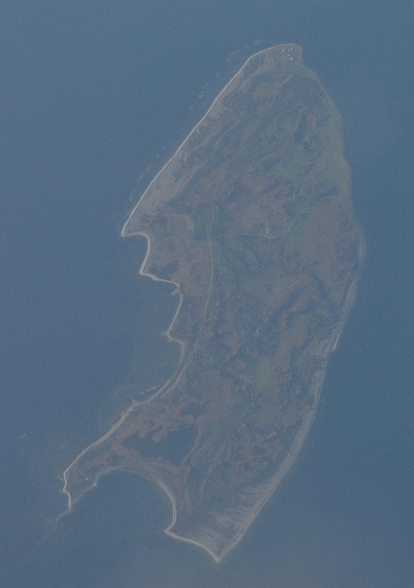 Osmussaar Island of Estonia, shot from 40,000 feet high.